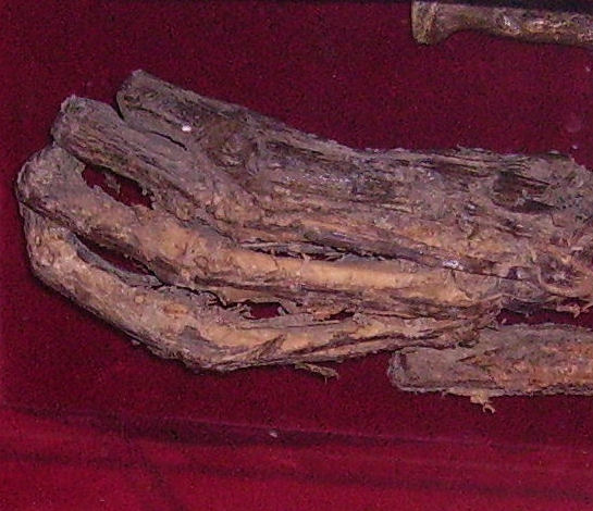 rotten hand in Eisenberg, Germany